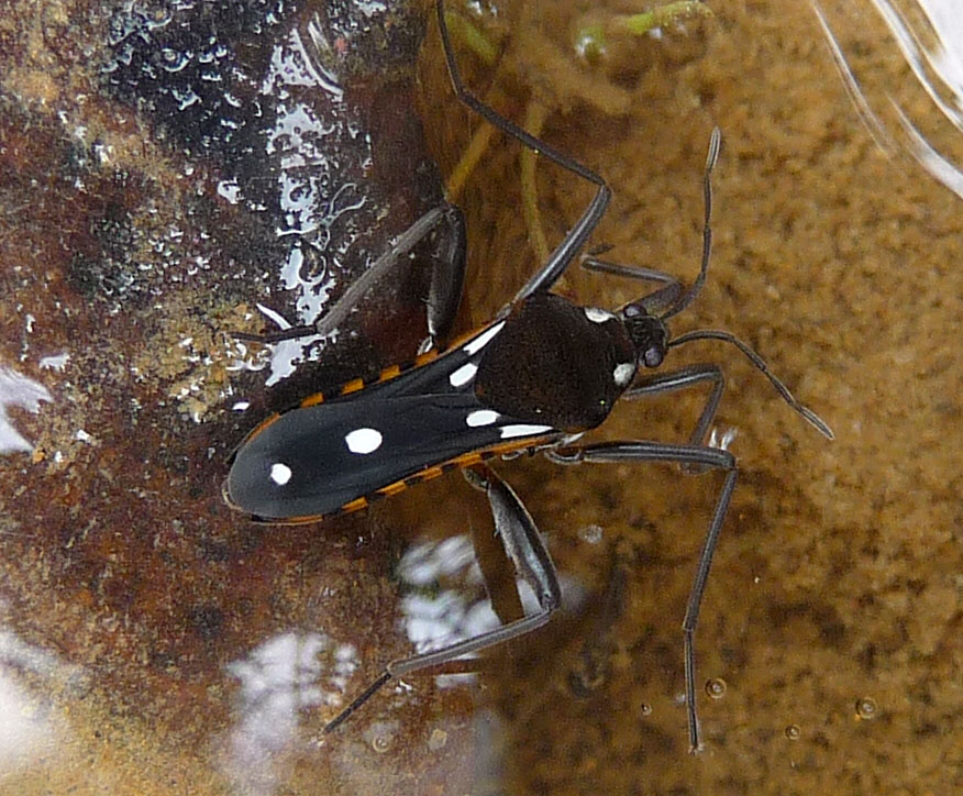 Hexapoda Hemiptera Heteroptera Veliidae Velia rivulorum Associated with hot coastal regions